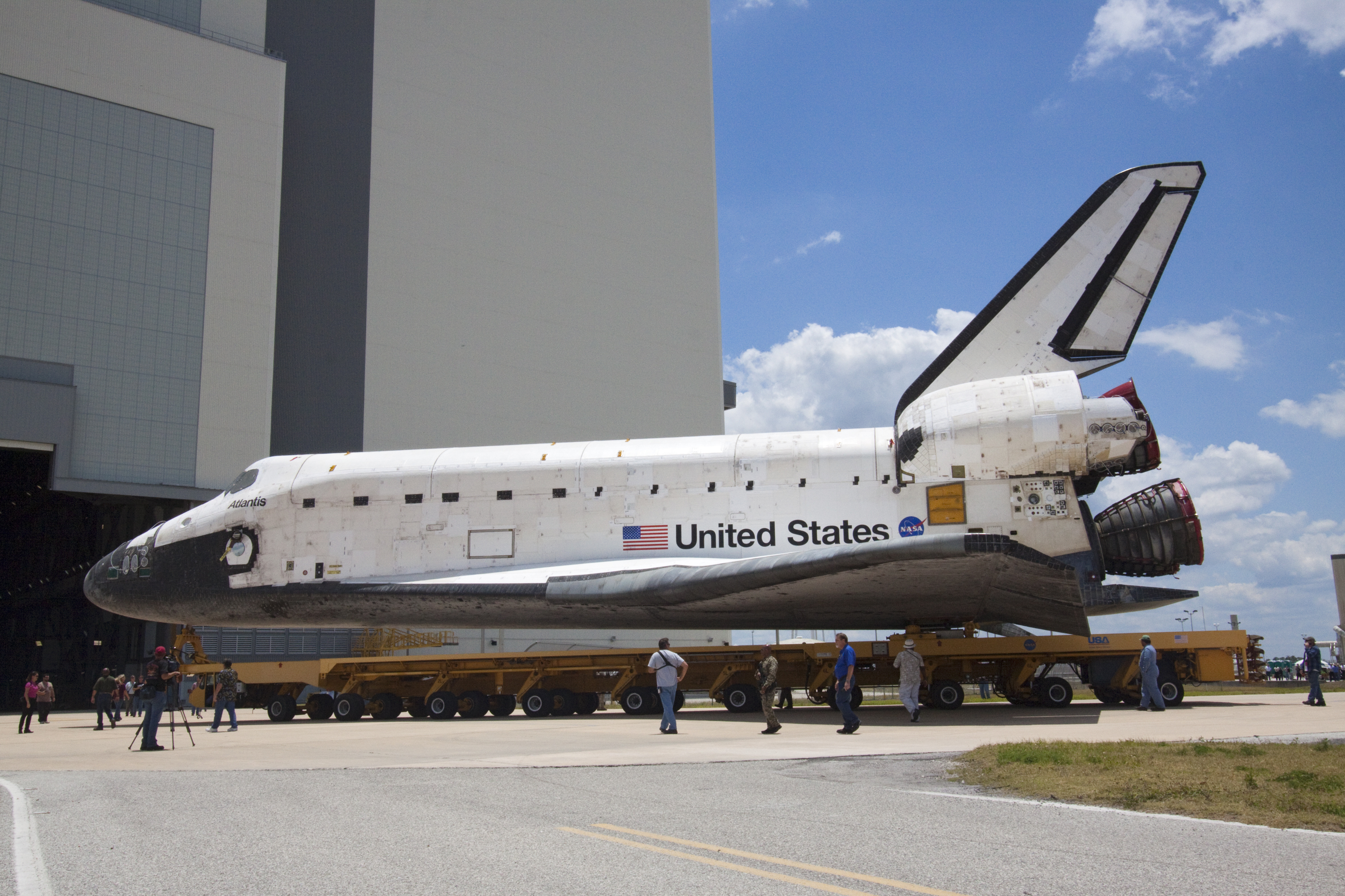 CAPE CANAVERAL, Fla. – Shuttle Atlantis makes its final planned move, or rollover, into the Vehicle Assembly Building (VAB) from Orbiter Processing Facility-1 at NASA's Kennedy Space Center in Florida. The move called "rollover" is a major milestone in processing for the STS-135 mission to the International Space Station. Commander Chris Ferguson, Pilot Doug Hurley and Mission Specialists Sandra Magnus and Rex Walheim are expected to launch mid July, taking with them the Raffaello multipurpose logistics module packed with supplies, logistics and spare parts. The STS-135 mission also will fly a system to investigate the potential for robotically refueling existing spacecraft and return a failed ammonia pump module to help NASA better understand the failure mechanism and improve pump designs for future systems. STS-135 will be the 33rd flight of Atlantis, the 37th shuttle mission to the space station, and the 135th and final mission of NASA's Space Shuttle Program. For more information visit